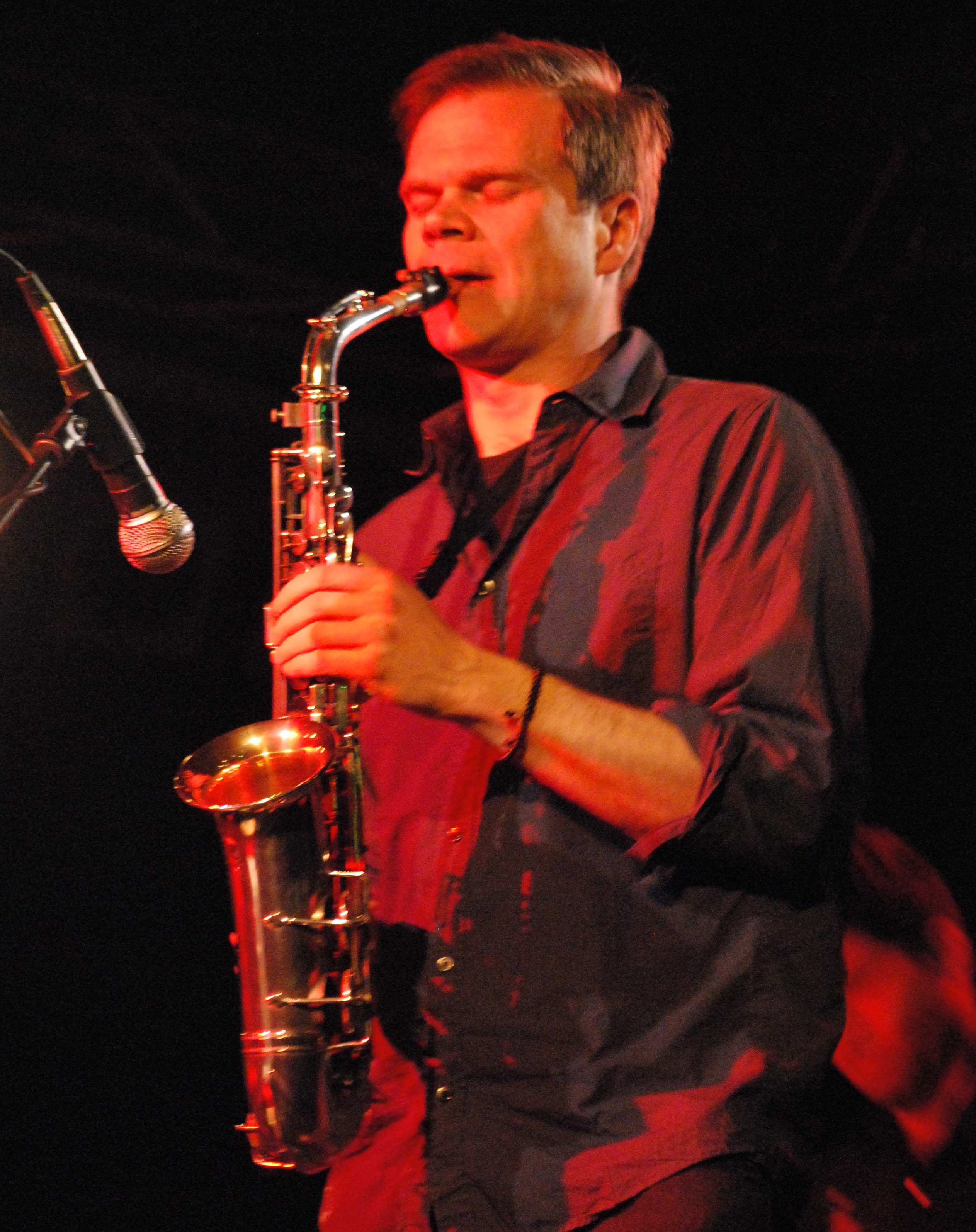 Briggan Krauss at a concert with Sex Mob. Treibhaus Innsbruck 2010